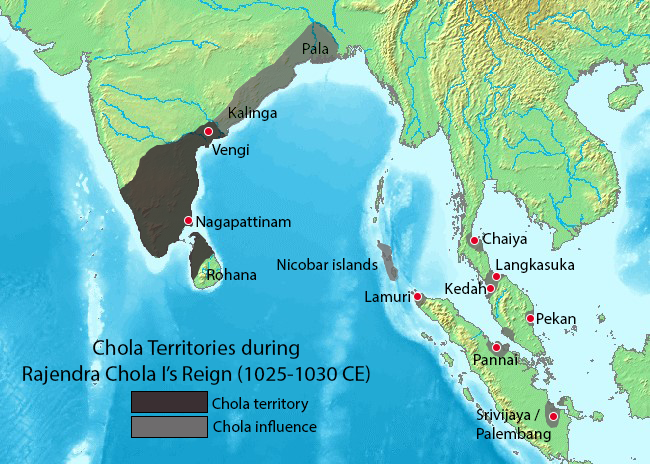 Summary Map showing the extent of the Chola empire during Rajendra Chola I. Source of map: (mention : "Disclaimer: With this statement DEMIS BV grants you permission to freely copy the PNG images returned by our server and use them for your own purposes, including web pages. We would appreciate a reference to our server but such a reference is not required, nor do we take responsibility for the accuracy or quality of the maps". at Modified by myself using Adobe Photoshop